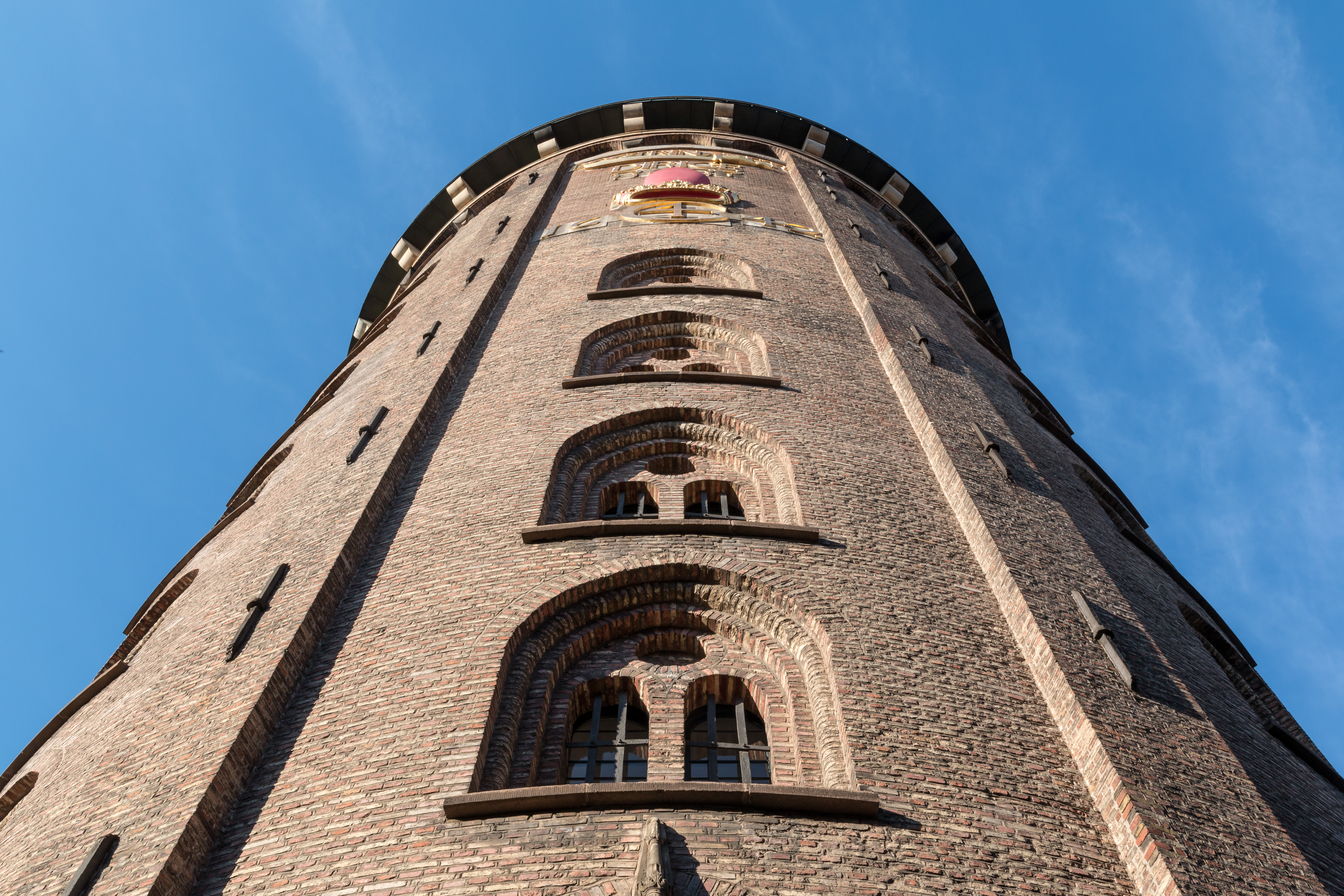 Rundetårn, Copenhagen, Denmark